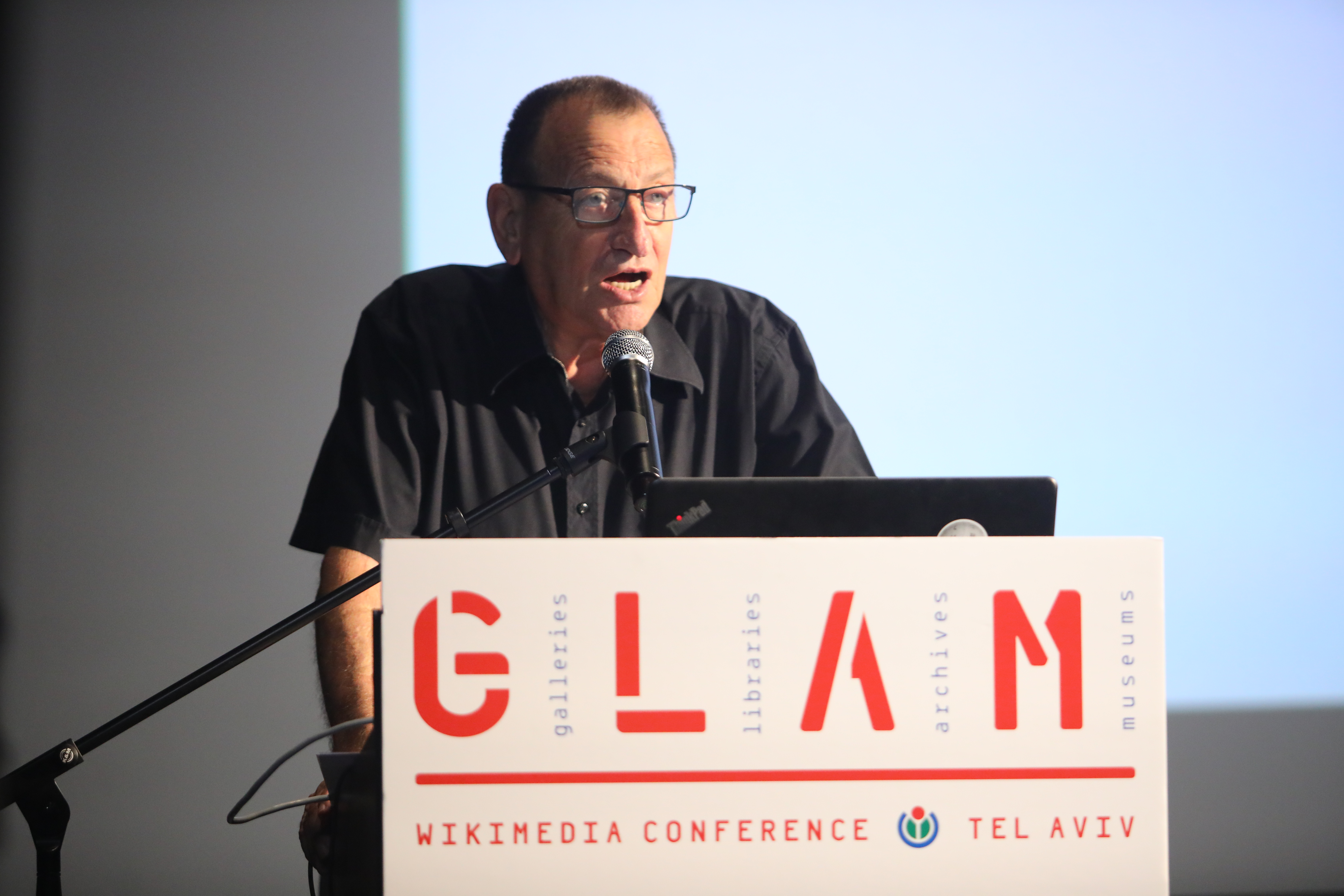 Opening Session at GLAM TLV 2018